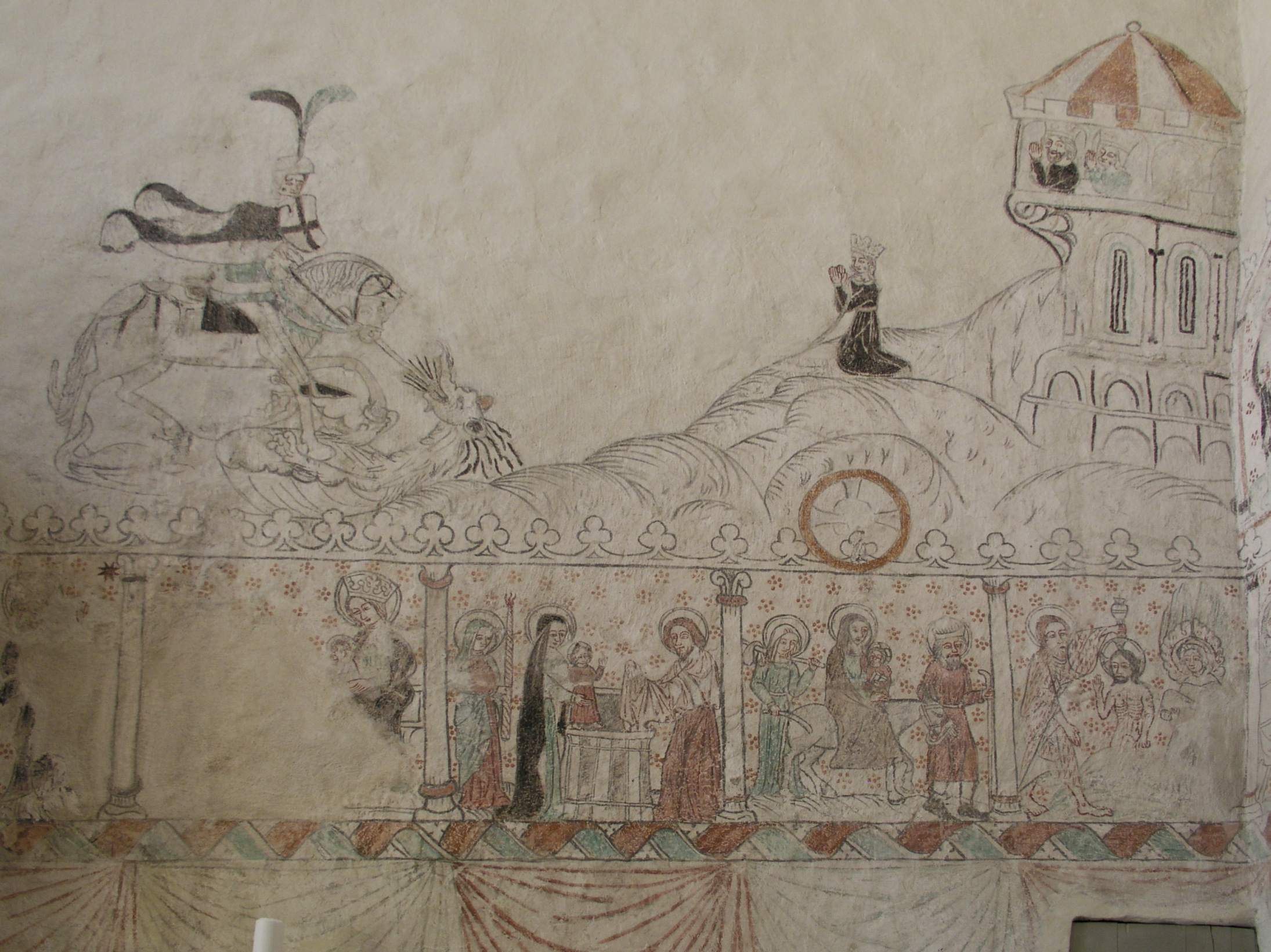 Anga church, Diocese of Visby, Gotland, Sweden. Mural painting